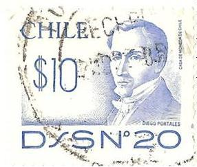 Politician Diego Portales (1793-1837) on a Chilean postage stamp (see Chile colector 953 and ). Catalog codes: Mi:CL 1002, Sn:CL 549 Issued on: 1982-12-13 Emission: Definitive Perforation: comb 13½ Printing: Offset lithography Size: 29 x 25 mm Colors: Light violet ultramarine Face value: 10 $ - Chilean peso Paper: fluorescent